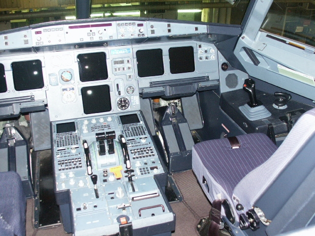 An A321 aircraft fly by wire cockpit.